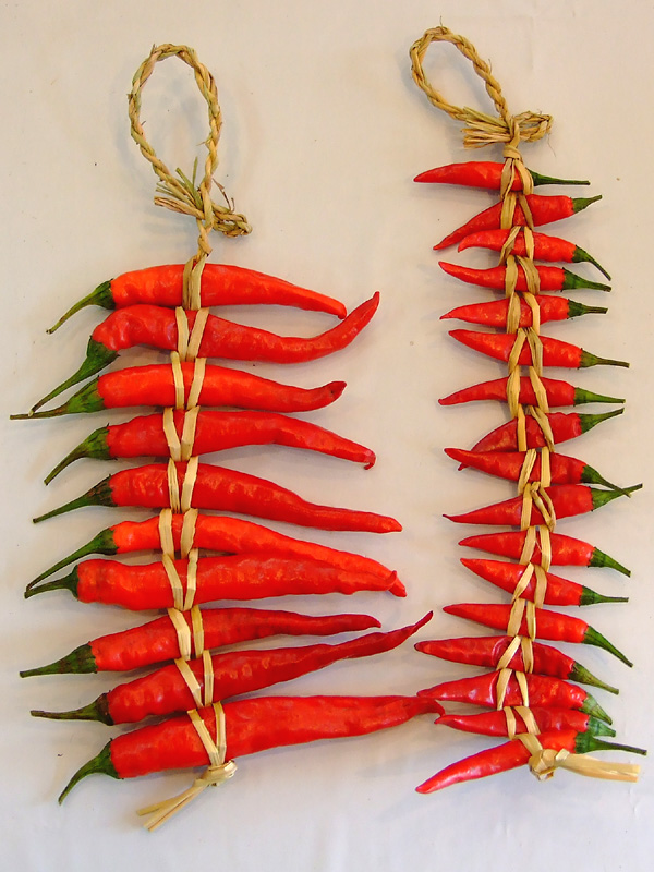 Korean Tradition with Red Pepper